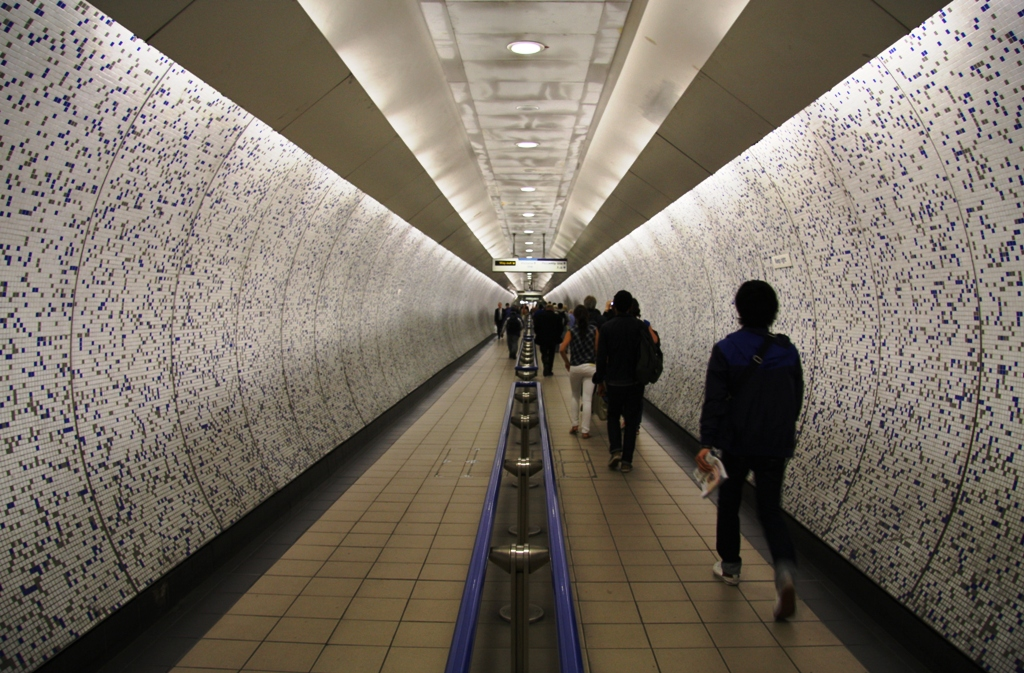 Corridor in Green Park tube station between the Victoria Line platforms and the Piccadilly and Jubilee Line platforms.